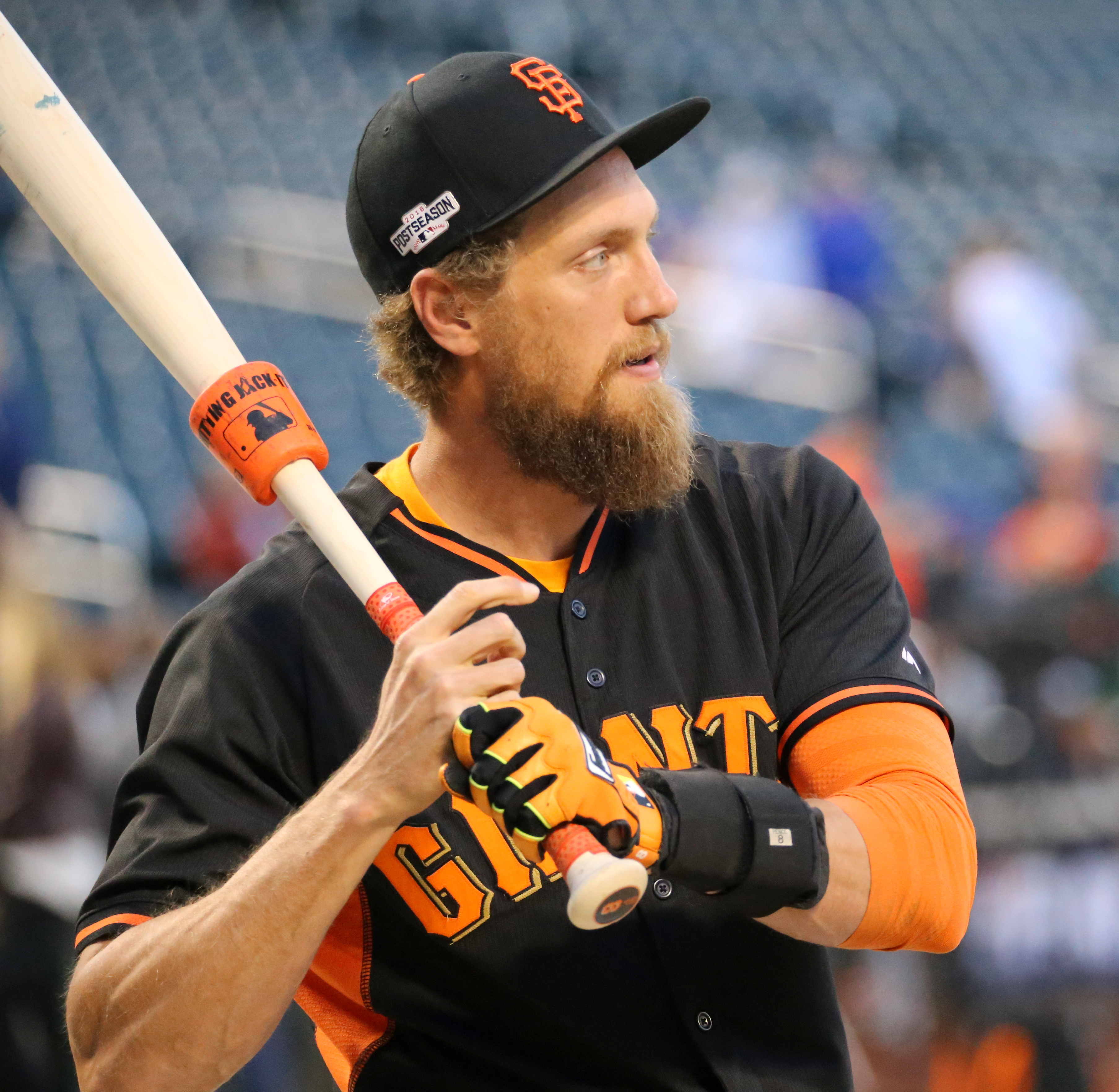 Giants outfielder Hunter Pence works out before the NL Wild Card Game.